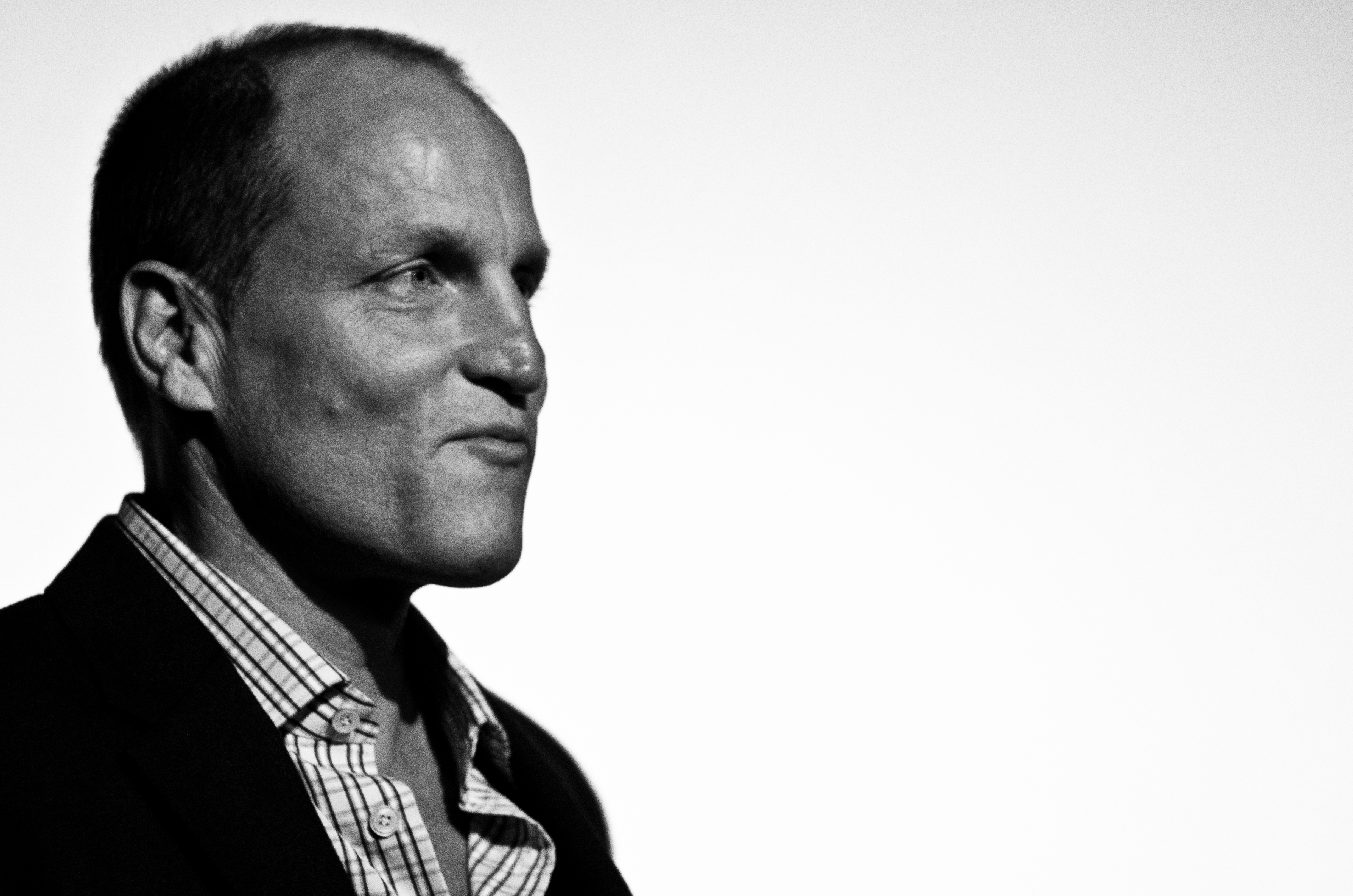 Woody Harrelson Ben Foster Robin Wright Brie Larson